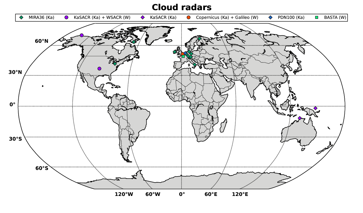 Cloud radar instruments involved in ACTRIS. Coordinates and bands from and